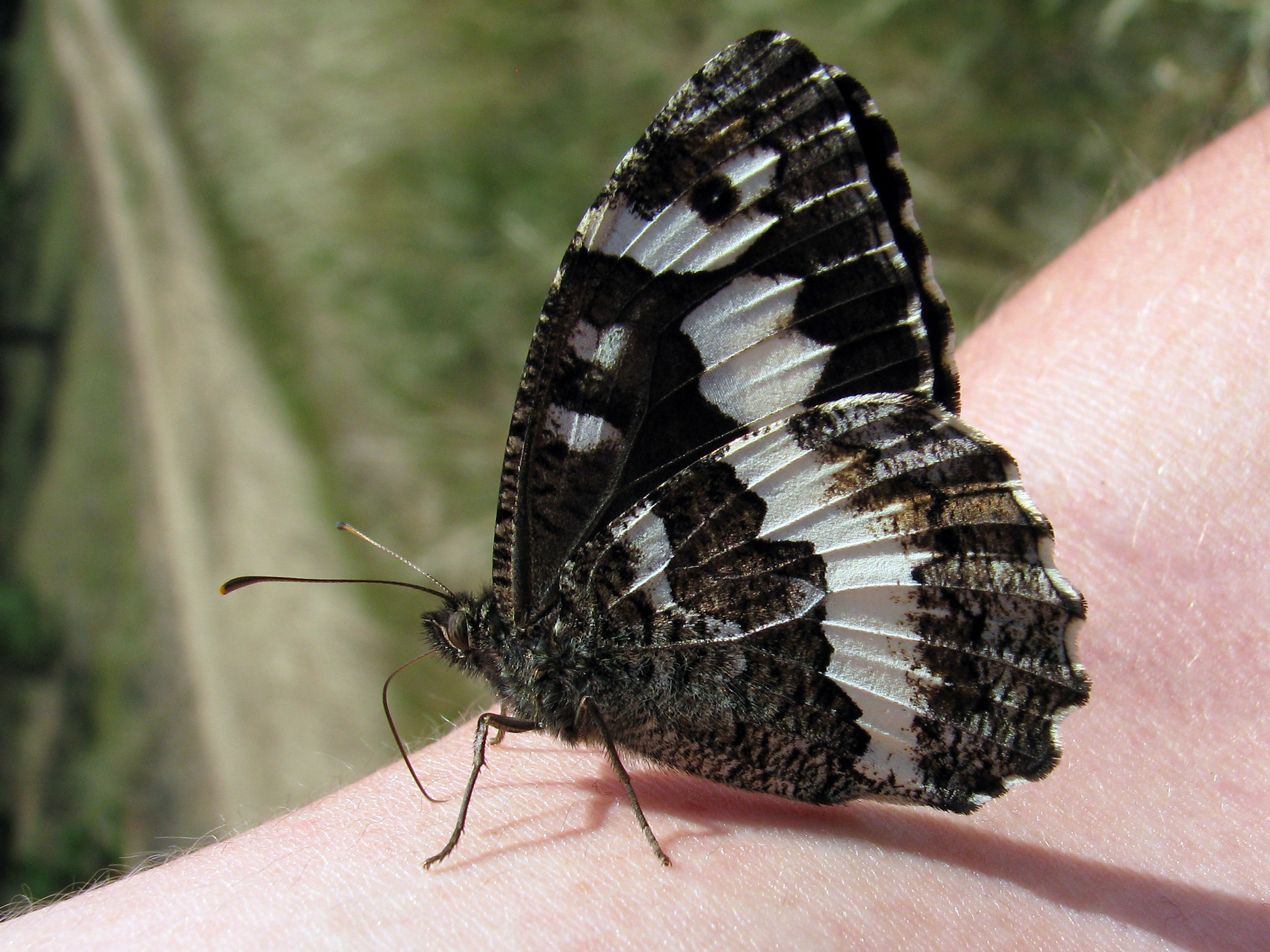 Brintesia circe